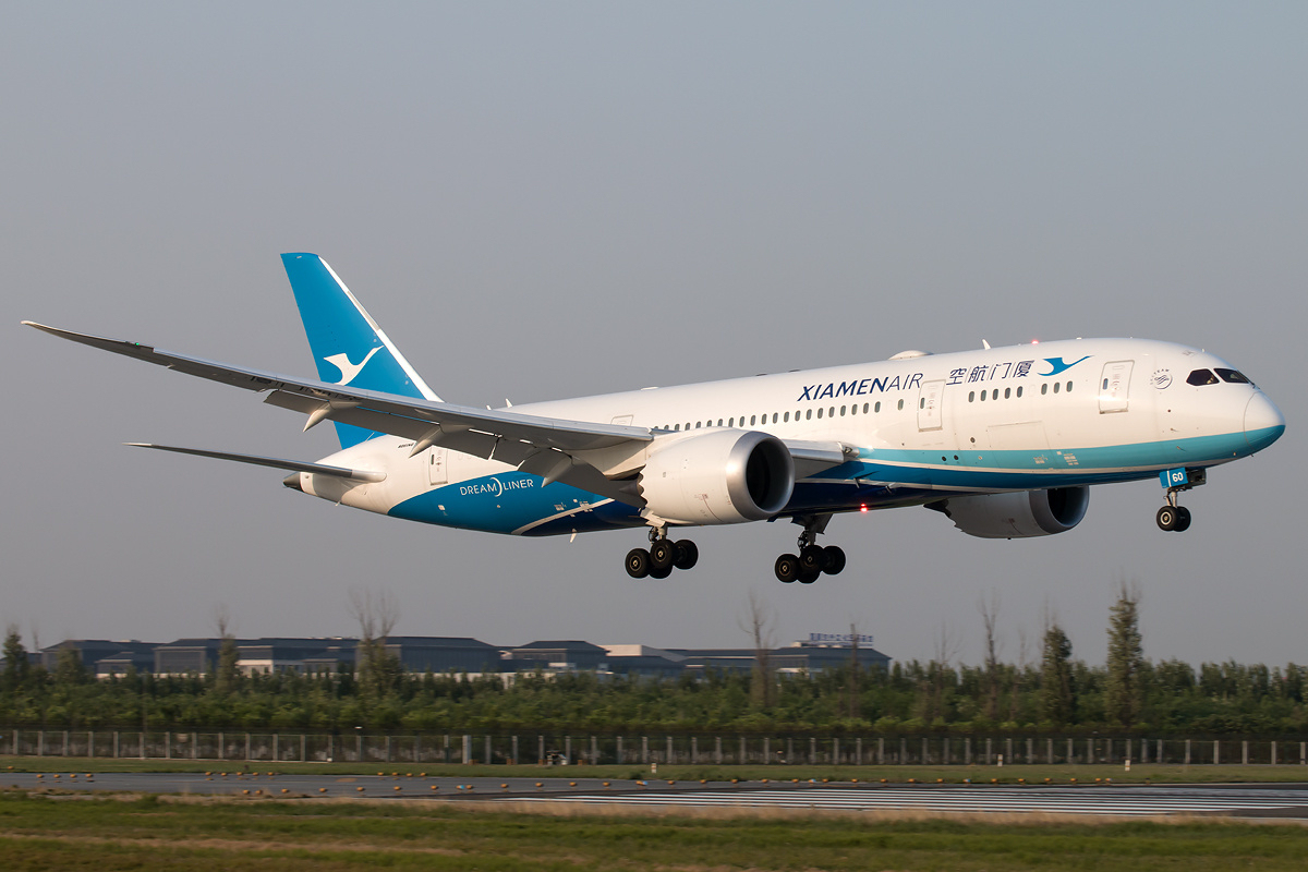 Xiamen Airlines Boeing 787-8 landing at Beijing Capital International Airport